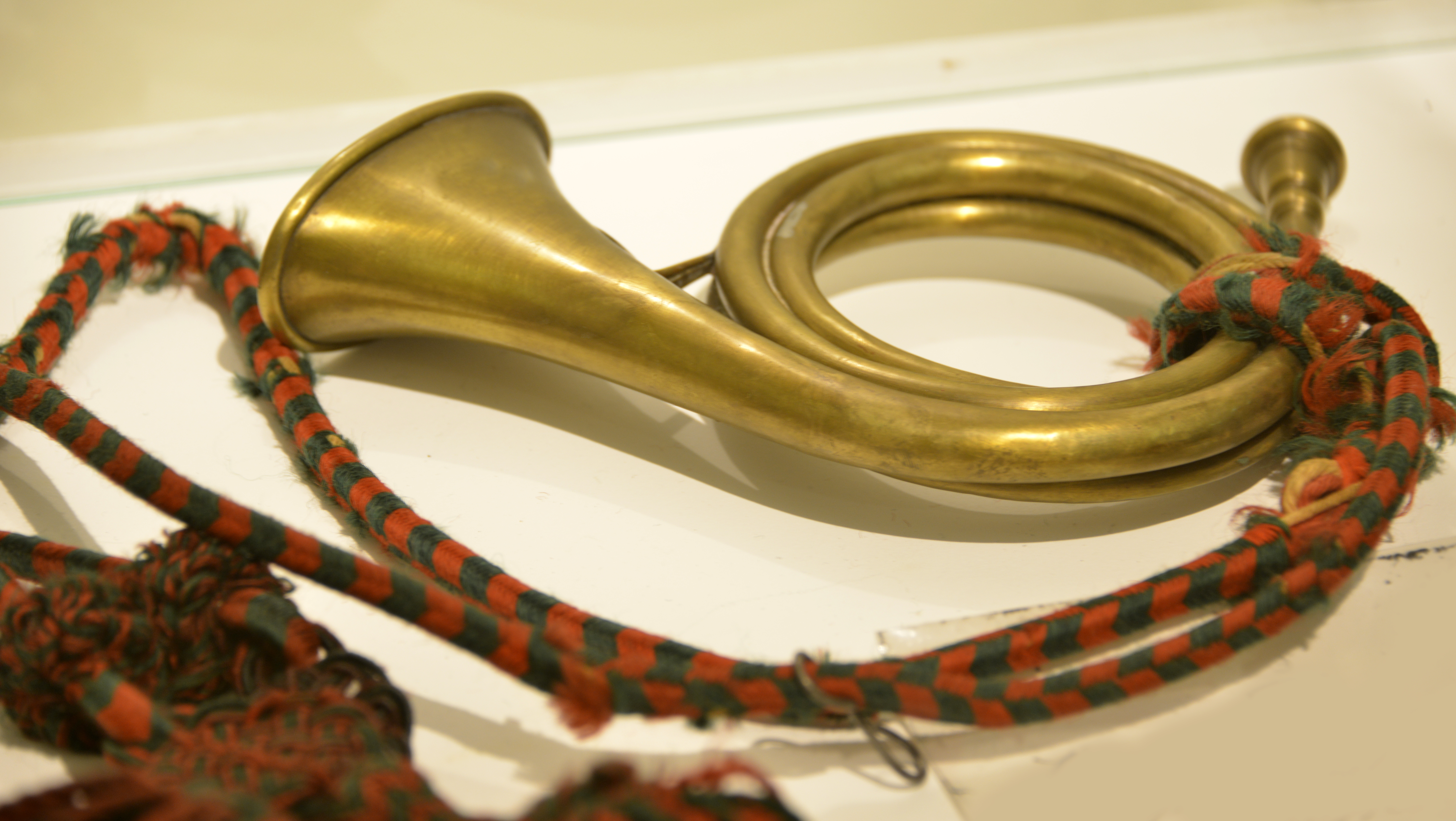 Exhibits at the PTT Museum in Belgrade